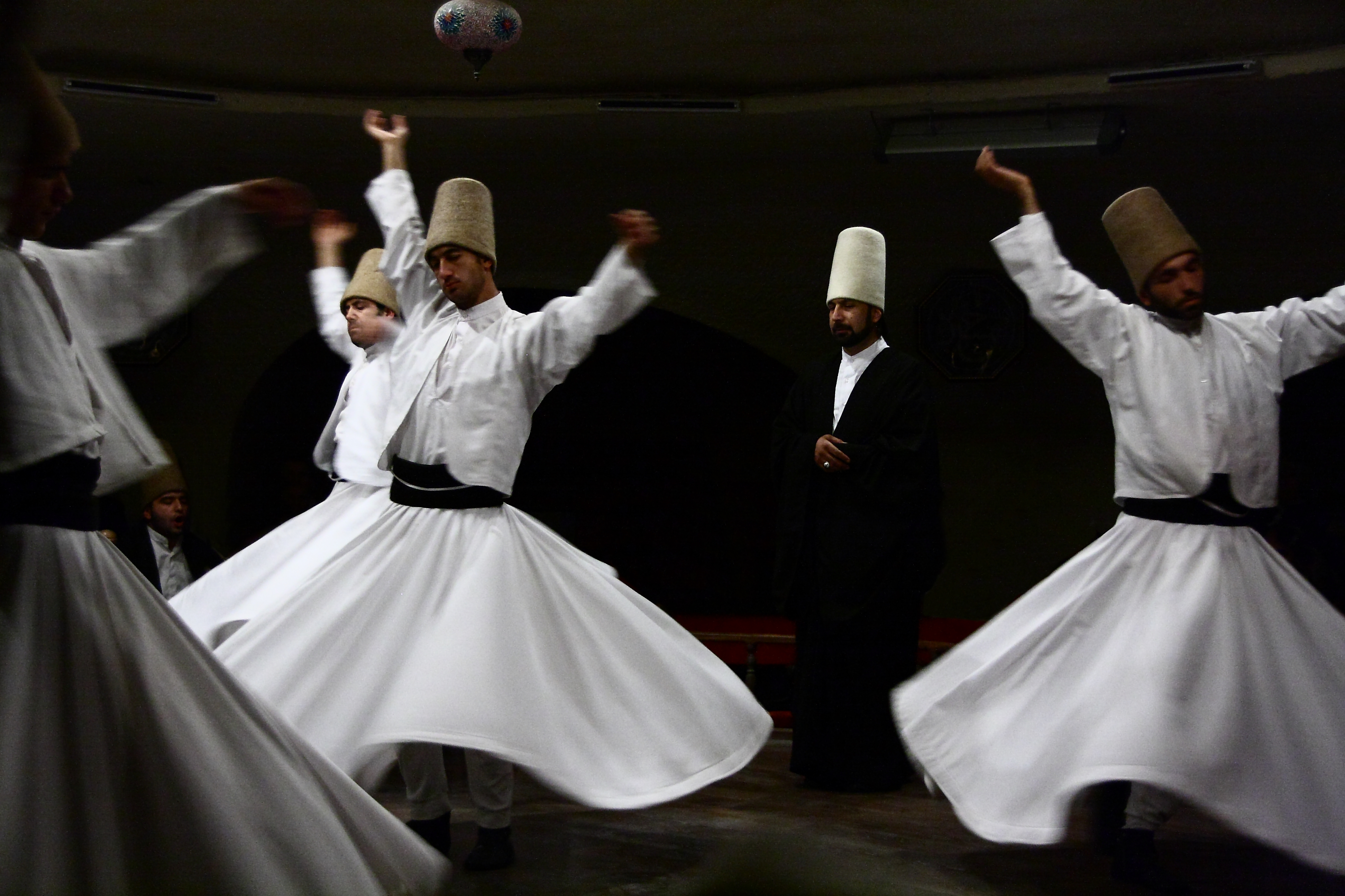 Semâ ceremony at the Dervishes Culture Center at Avanos, Turkey. A huge "Thank You" to the dervishes for the opportunity to make this foto at their holy ceremony.